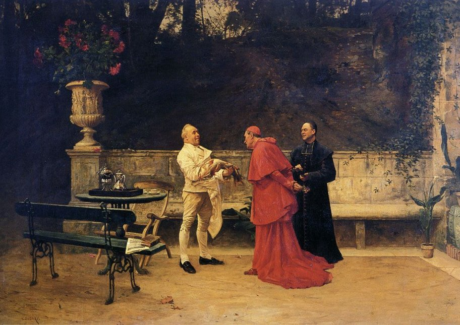 'Friday'